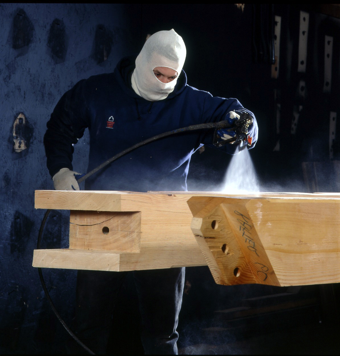 A worker uses a spray gun to apply a urethane finish to a timber